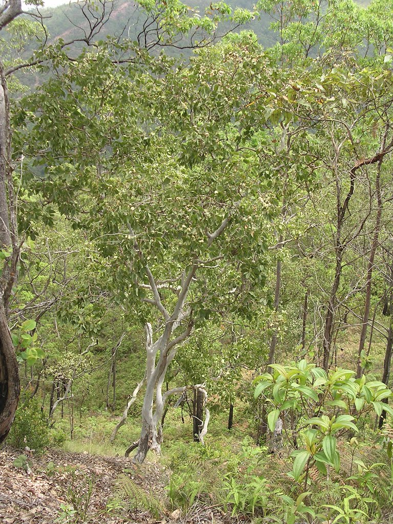 Montane woodland at c. 1,000 m, 5 km west of Seloi village - Eucalyptus alba